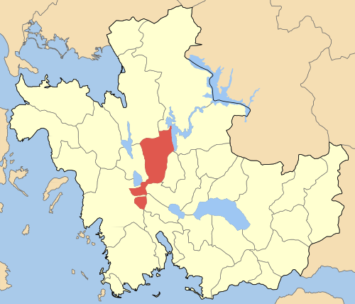 Locator map of Stratou municipality (Δήμος Στράτου) at Aitoloakarnania perfecture, Greece.